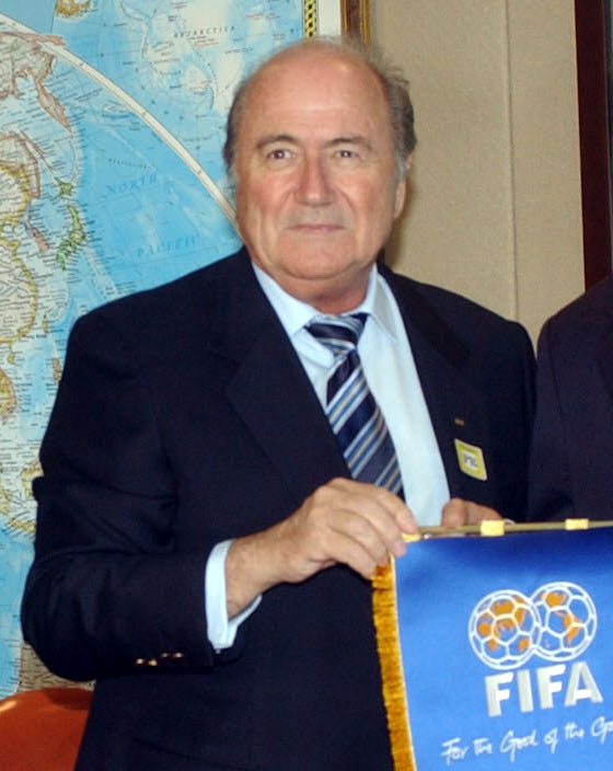 Joseph Blatter, FIFA's presidend